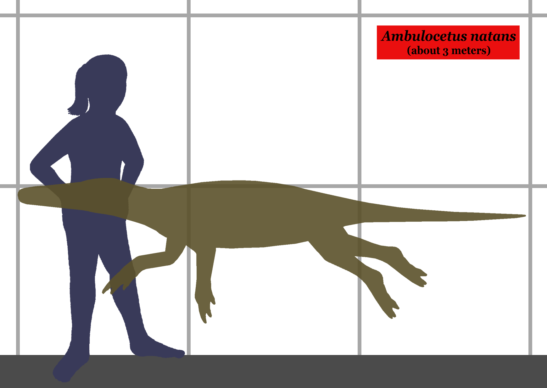 Size comparison between Ambulocetus natans and a human.